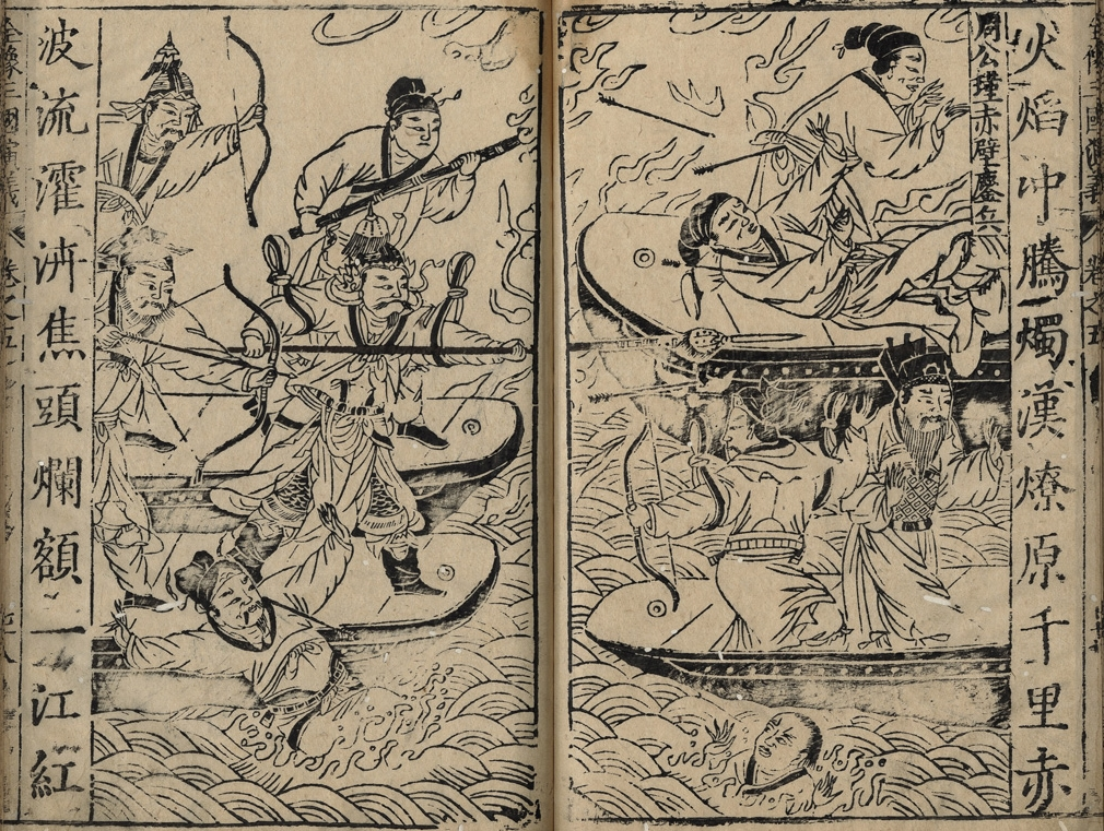 Xinkanjiaozheng gudaziben yinshi sanguozhi tongsuyanyi (A Newly Proofed Edition of the Romance of the Three Kingdoms) Written by Luo Quanzhong of Ming dynasty (1368-1644) Ming imprint and proofed by Zhou Yuejiao of Shulin in the 19th year of Wanli reign (1591)